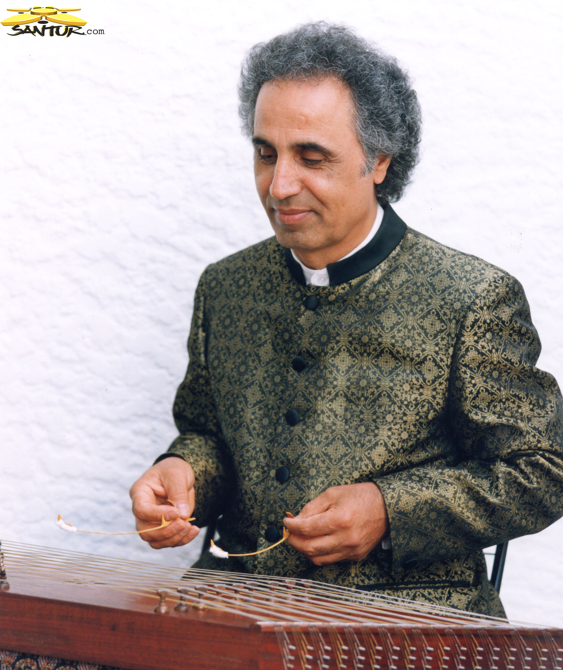 Manoochehr Sadeghi Santur displaying the classic pose and hand technique to perform the santur.